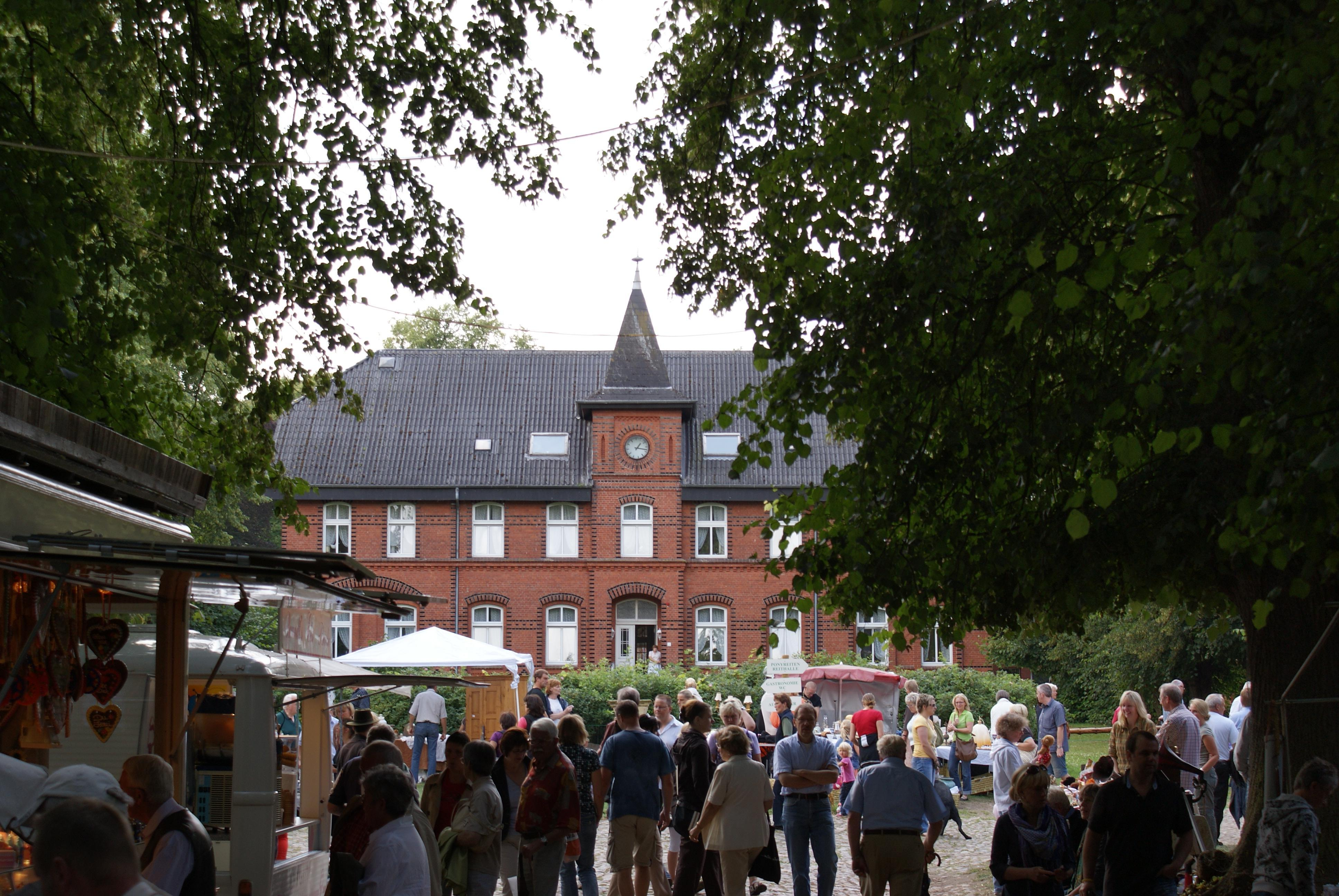 Market at Traventhal